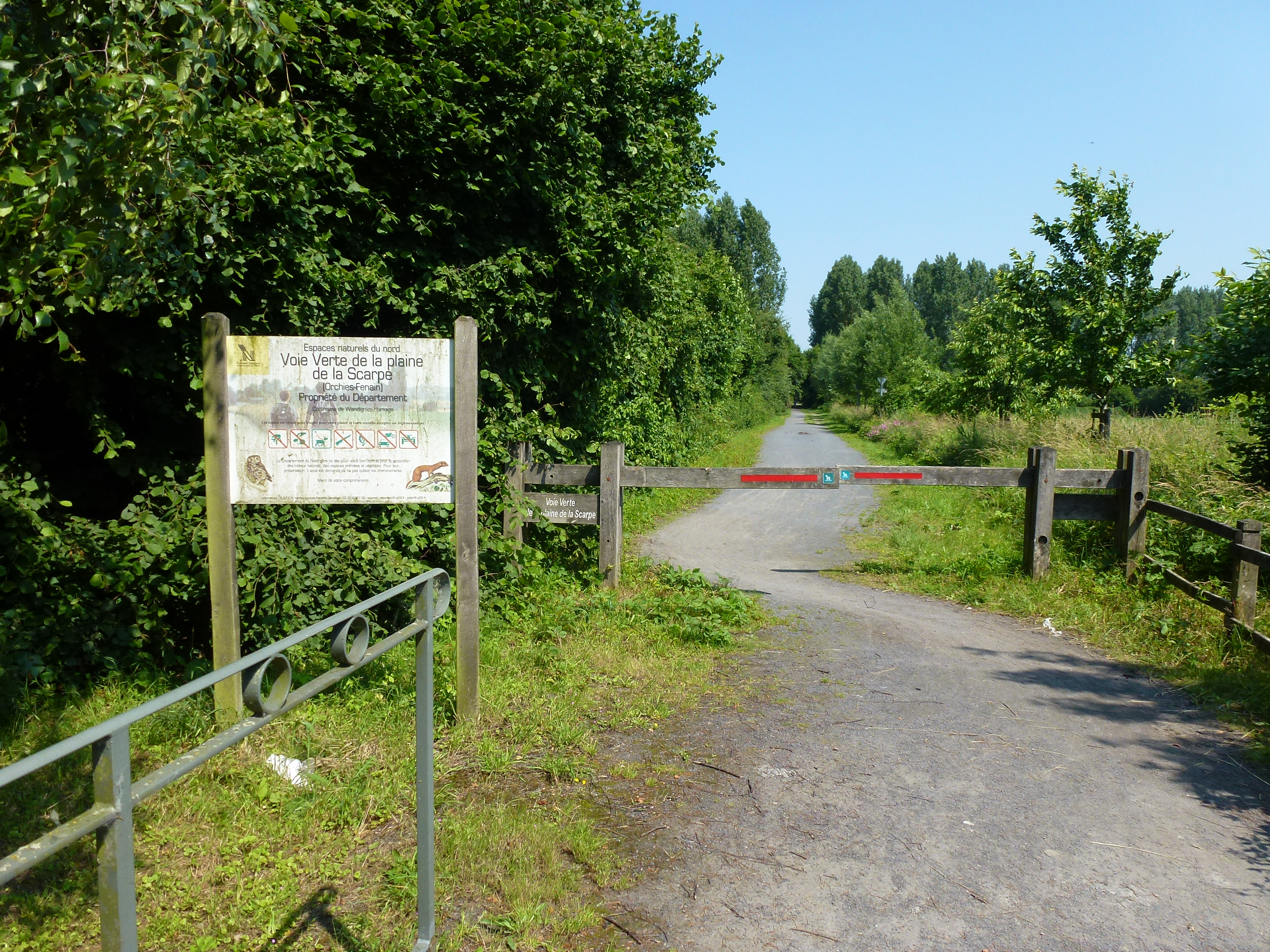 Wandignies-Hamage (Nord, Fr) voie verte de la Plaine de la Scarpe